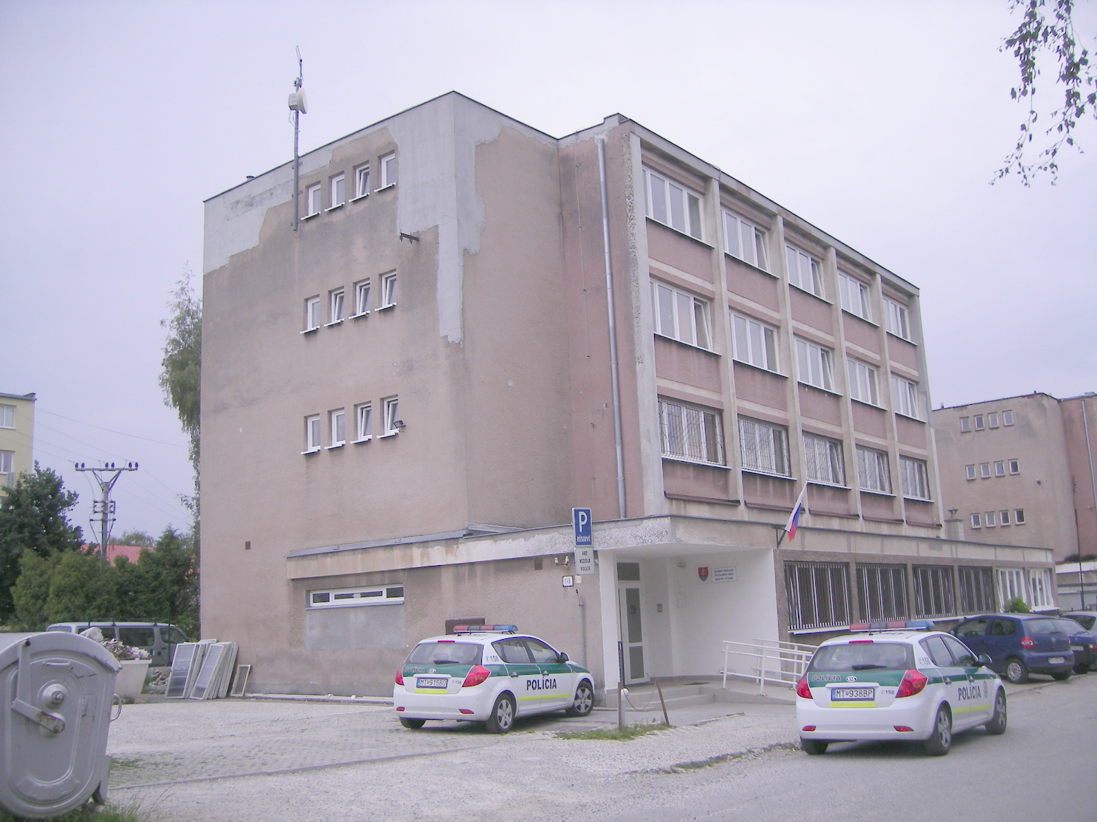 Martin - police station